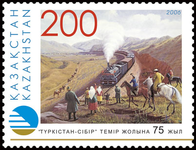 Stamp of Kazakhstan